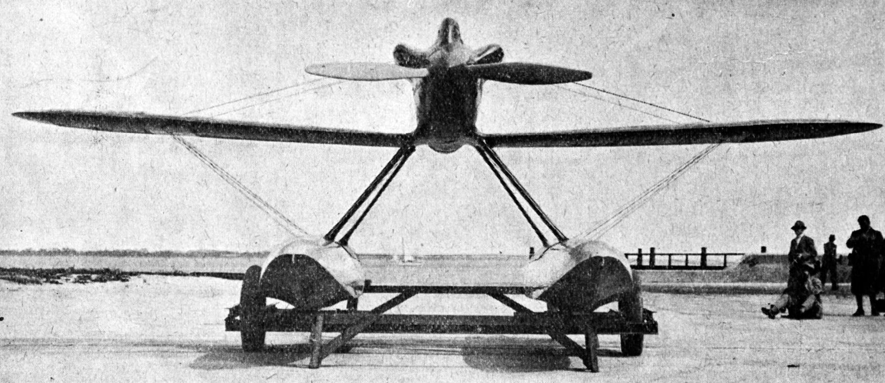 Gloster VI photo from L'Aérophile September,1929